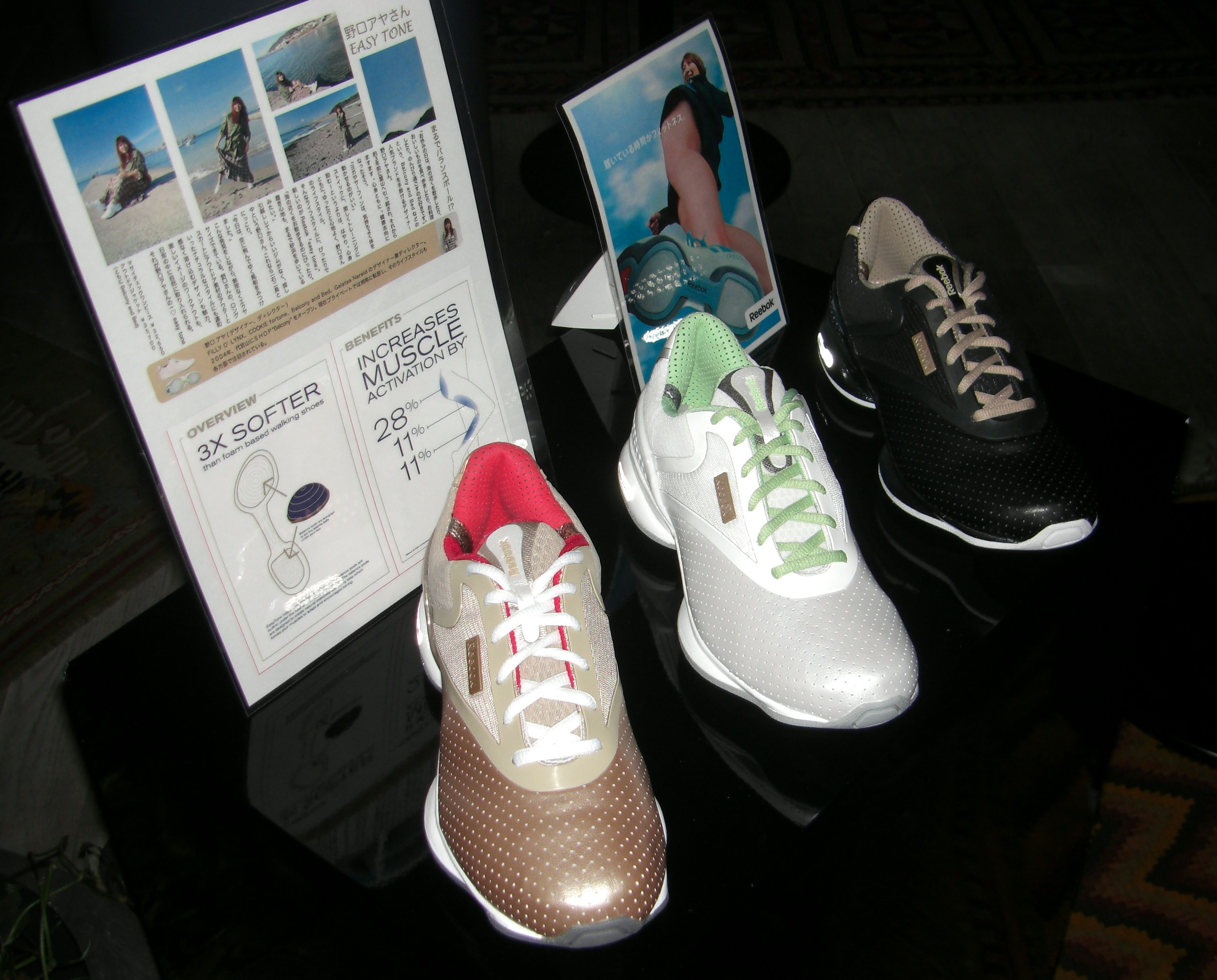 Reebok EASY TONE(2009)